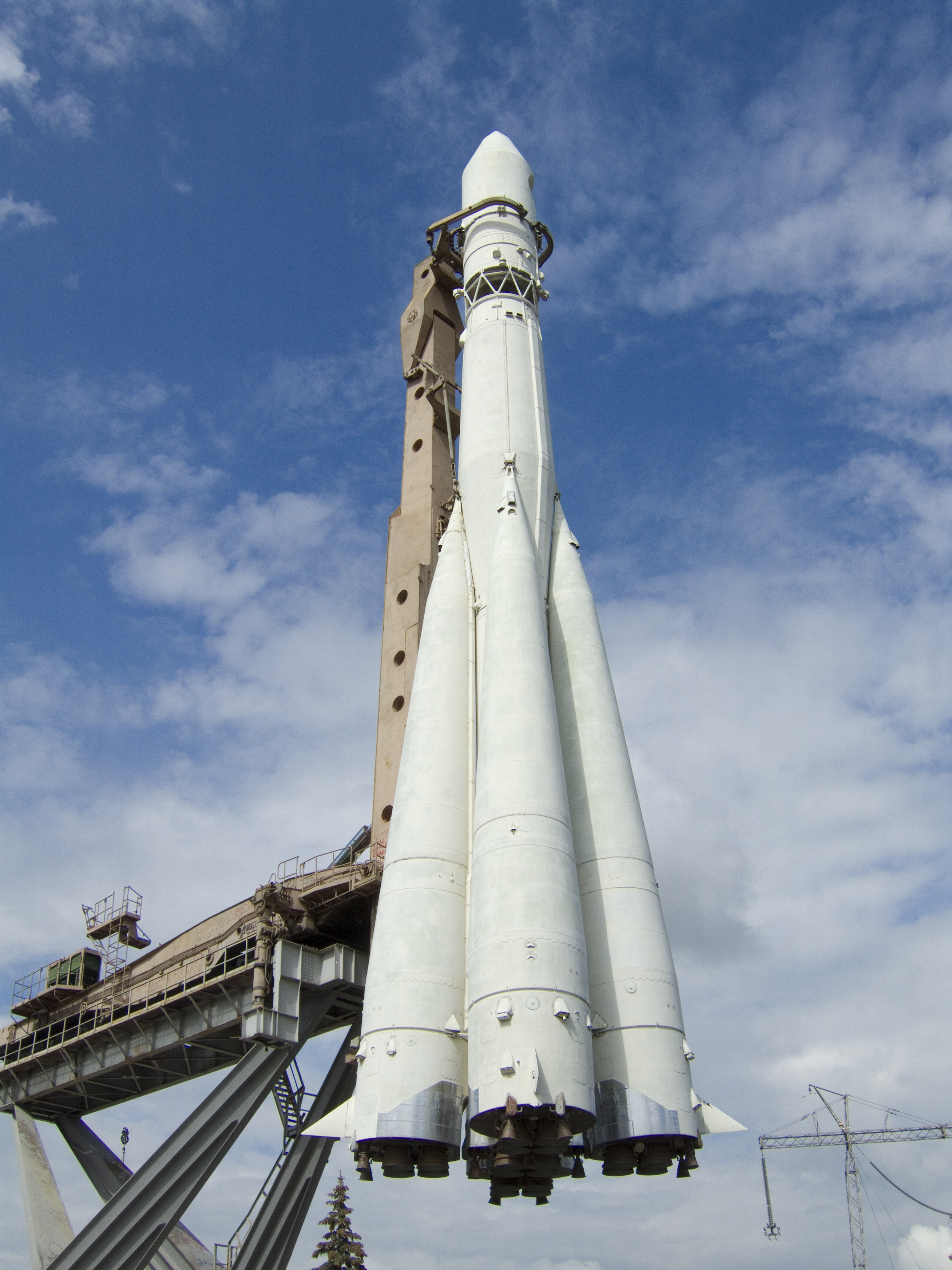 The "Semyorka" - the Rocket R7 by Sergei Korolyov in VDNH, Ostankino, Moscow.